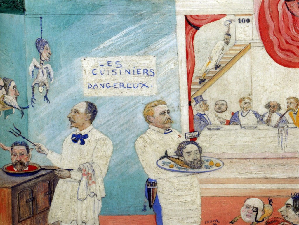 James Ensor, Les cuisiniers dangereux, 1896